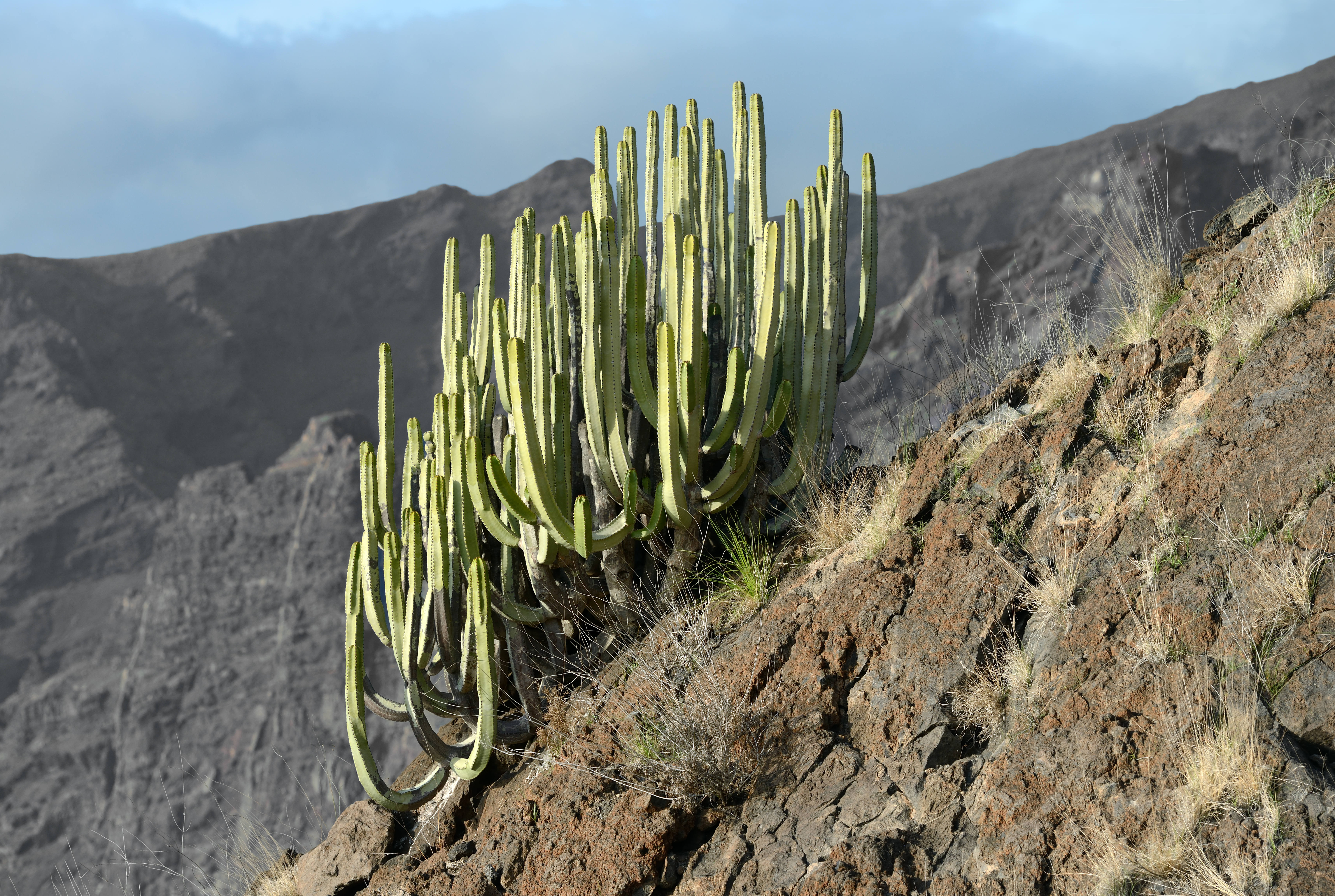 Canary Island Spurge (Euphorbia canariensis) close to the Mirador de Archipenque at Los Gigantes in the Santiago del Teide municipality on the west coast of Tenerife, Canary Islands. The species is endemic to the Canary Islands.